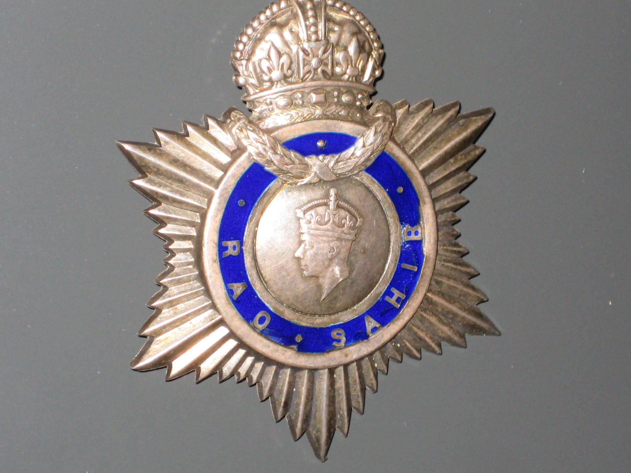 Medal provided during the 'Rao Sahib' commemoration.